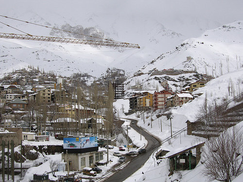 Shemshak, ski resort in the Elburs mountains, Iran